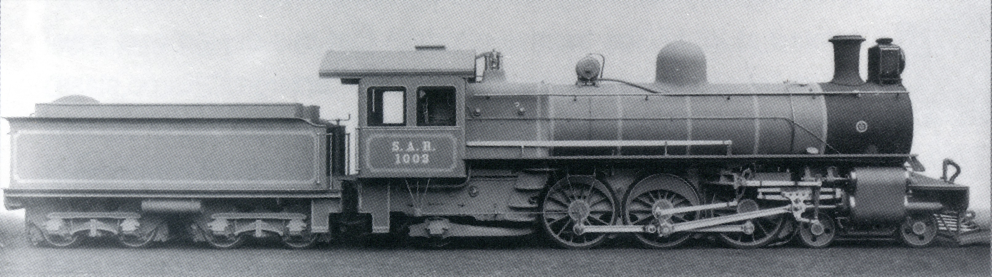 CSAR Class 10-C no. 1003, as delivered with a Type XC tender